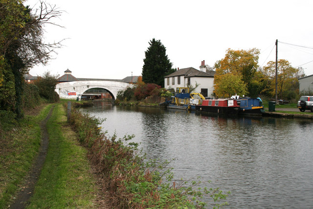 Bulls Bridge, Paddington Arm, Grand Union Canal, Hayes, Middlesex This is a view of the bridge from the Paddington Arm, showing the bridge carrying the towpath of the main line across the end of the arm.